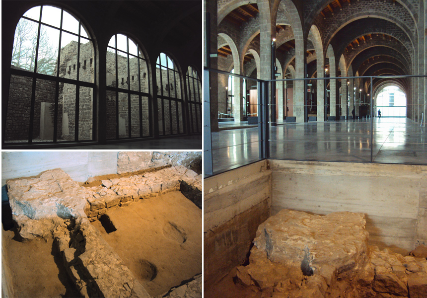 Maritime Museum of Barcelona,16 march 2013.